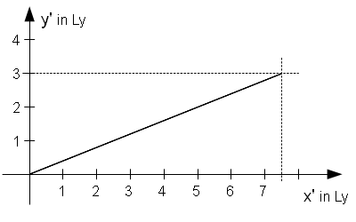 Path of light signal in S'